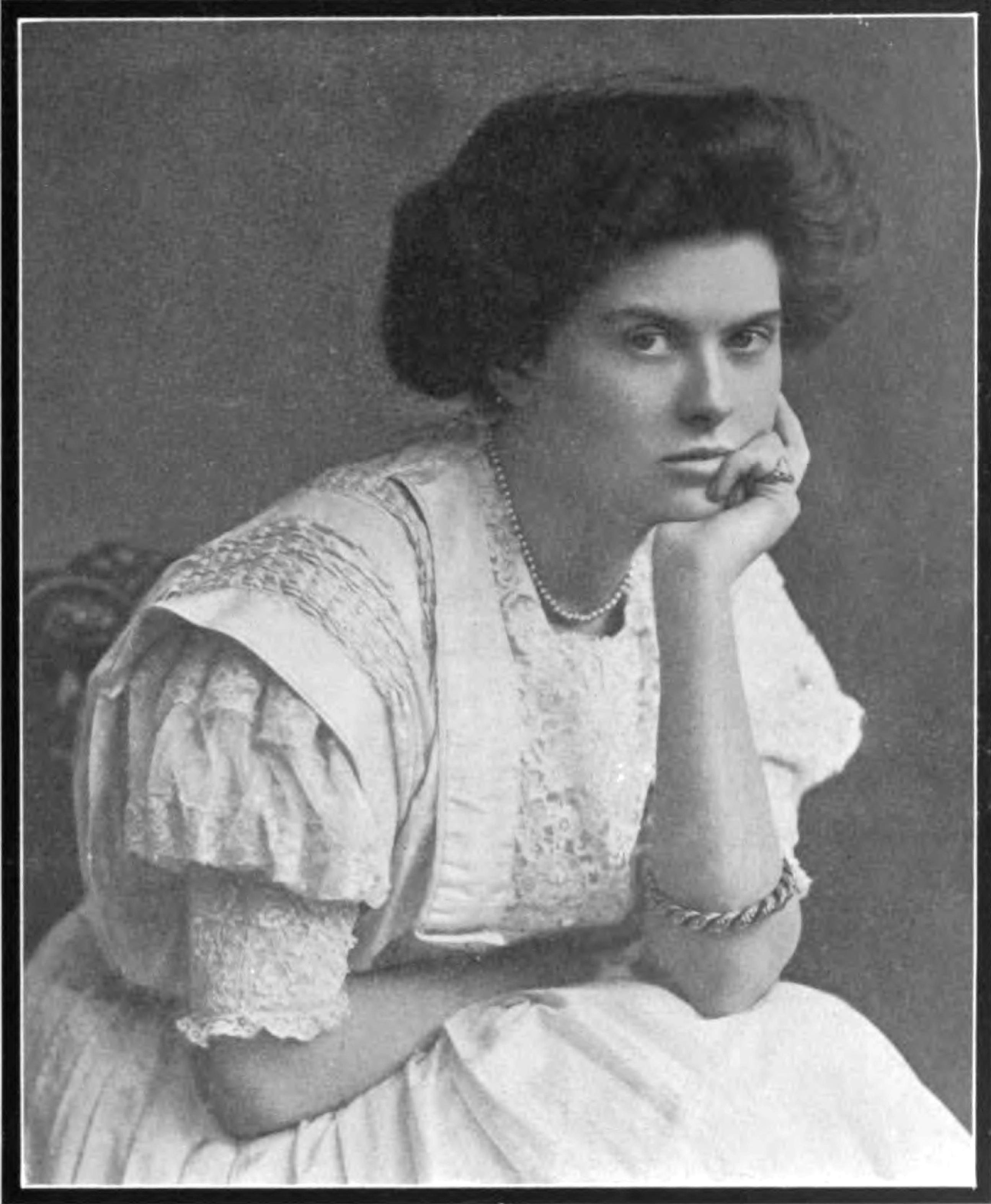 Florence Nash in 1909